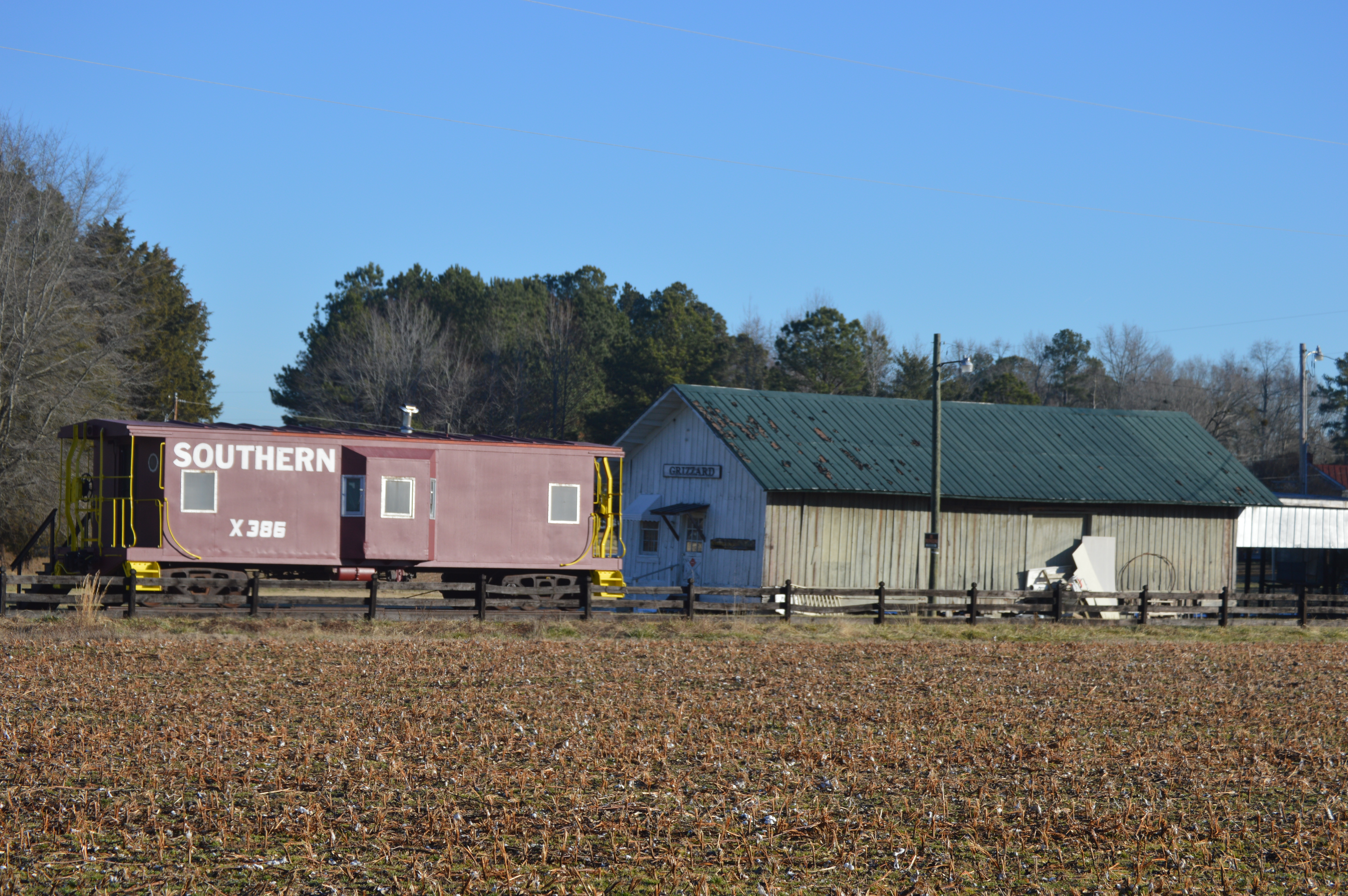 Front of the former Southern Railroad depot at Grizzard in Sussex County, Virginia, United States.